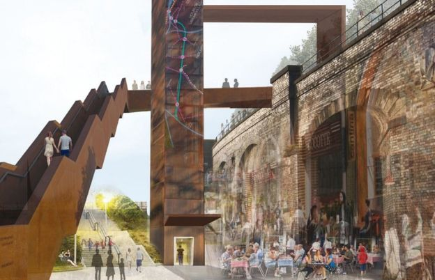 A visualisation of the Holbeck Viaduct Project as it would look once developed